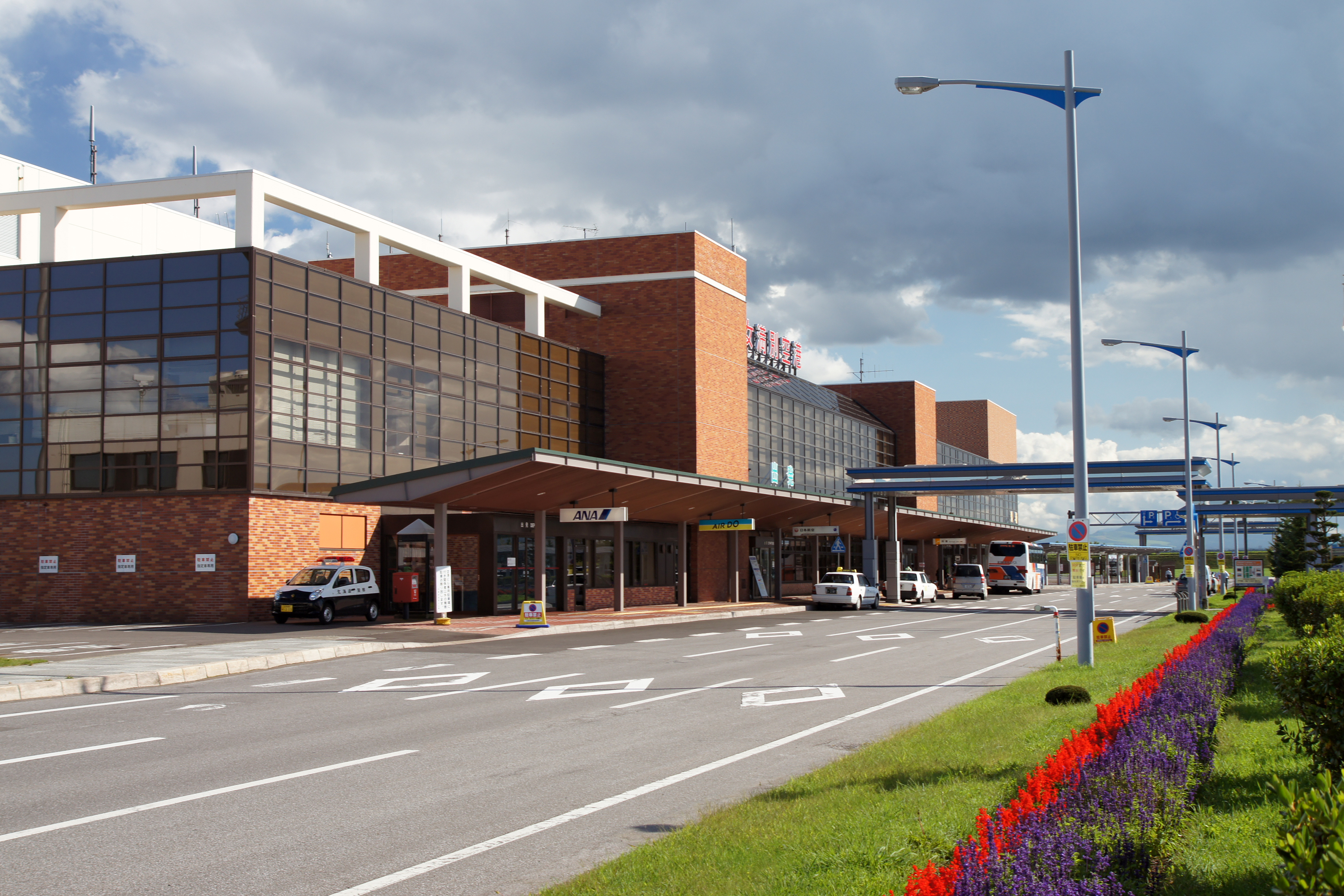 Memanbetsu Airport in Ozora, Hokkaido prefecture, Japan